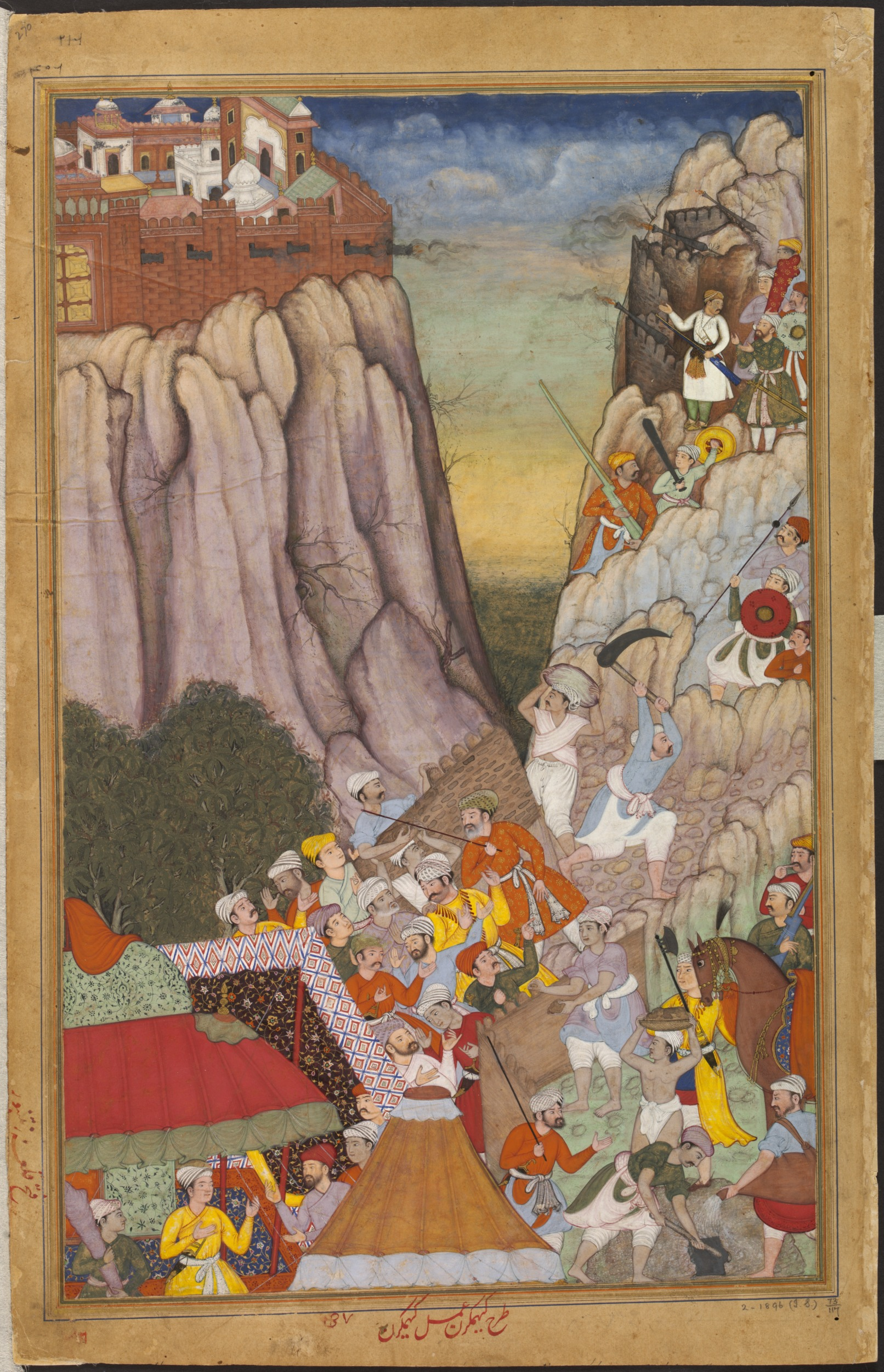 Akbar (in white, at top right) directing the attack against Rao Surjan Hada at Ranthambhor fort. The fort is perched on top of a steep rock cliff, and its guns blaze out across a void at the Mughal troops on the facing rocky outcrop. Tents are pitched at lower left, near the men who are constructing 'sabats', or covered ways, in order to allow the army to move nearer to the enemy.